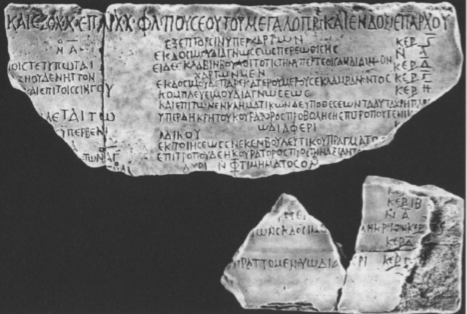 Sportulae inscription on tablets found at a praetorium in Israel